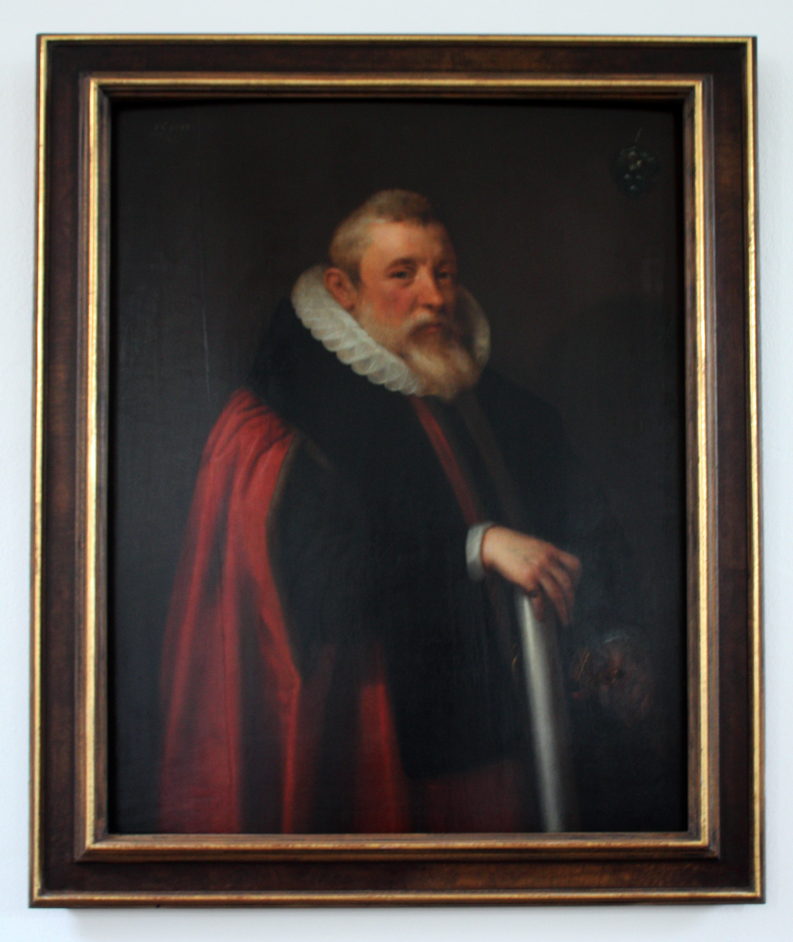 Cologne, the Hardenrath family